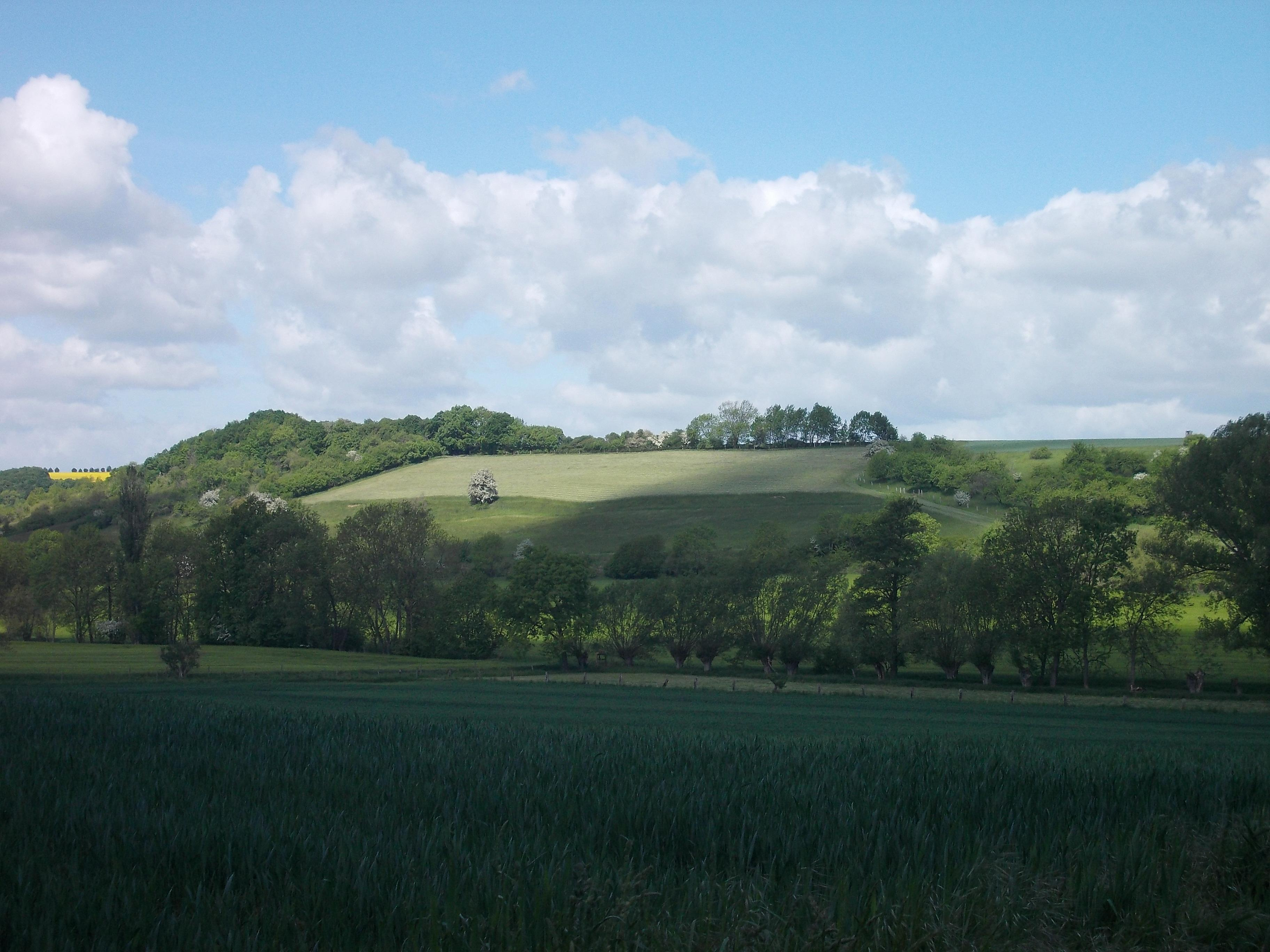 View of the Halbberge bei Mertendorf nature reserve from Rathewitz (Mertendorf, district: Burgenlandkreis, Saxony-Anhalt)